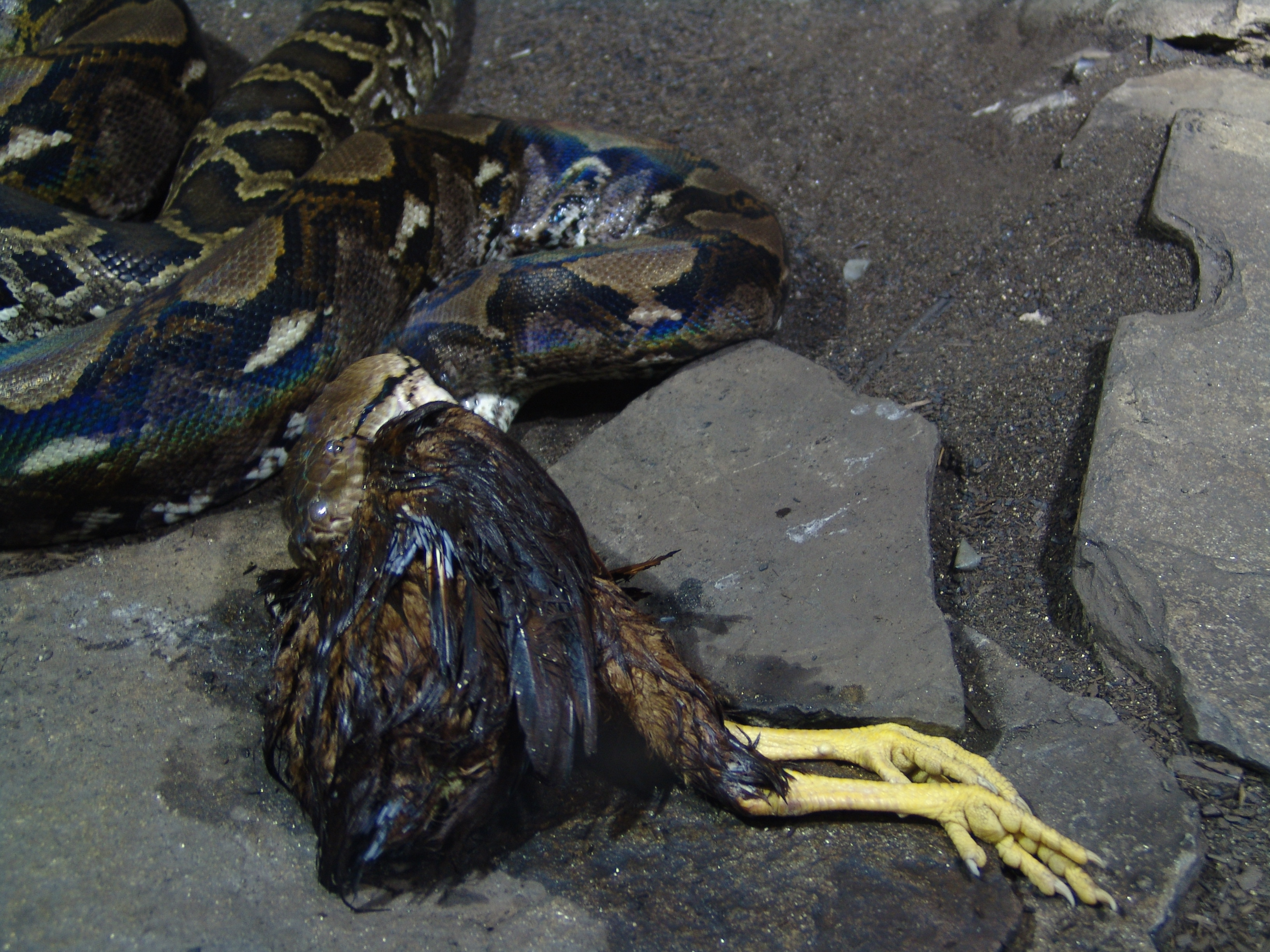 Reticulated Python at Wilmington's Serpentarium, it is eating a chicken. I took the picture.